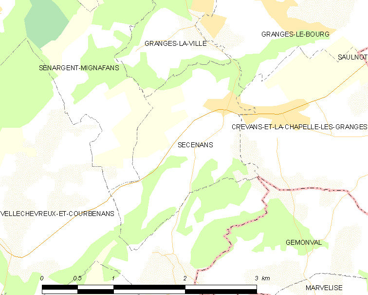 Map of French municipality